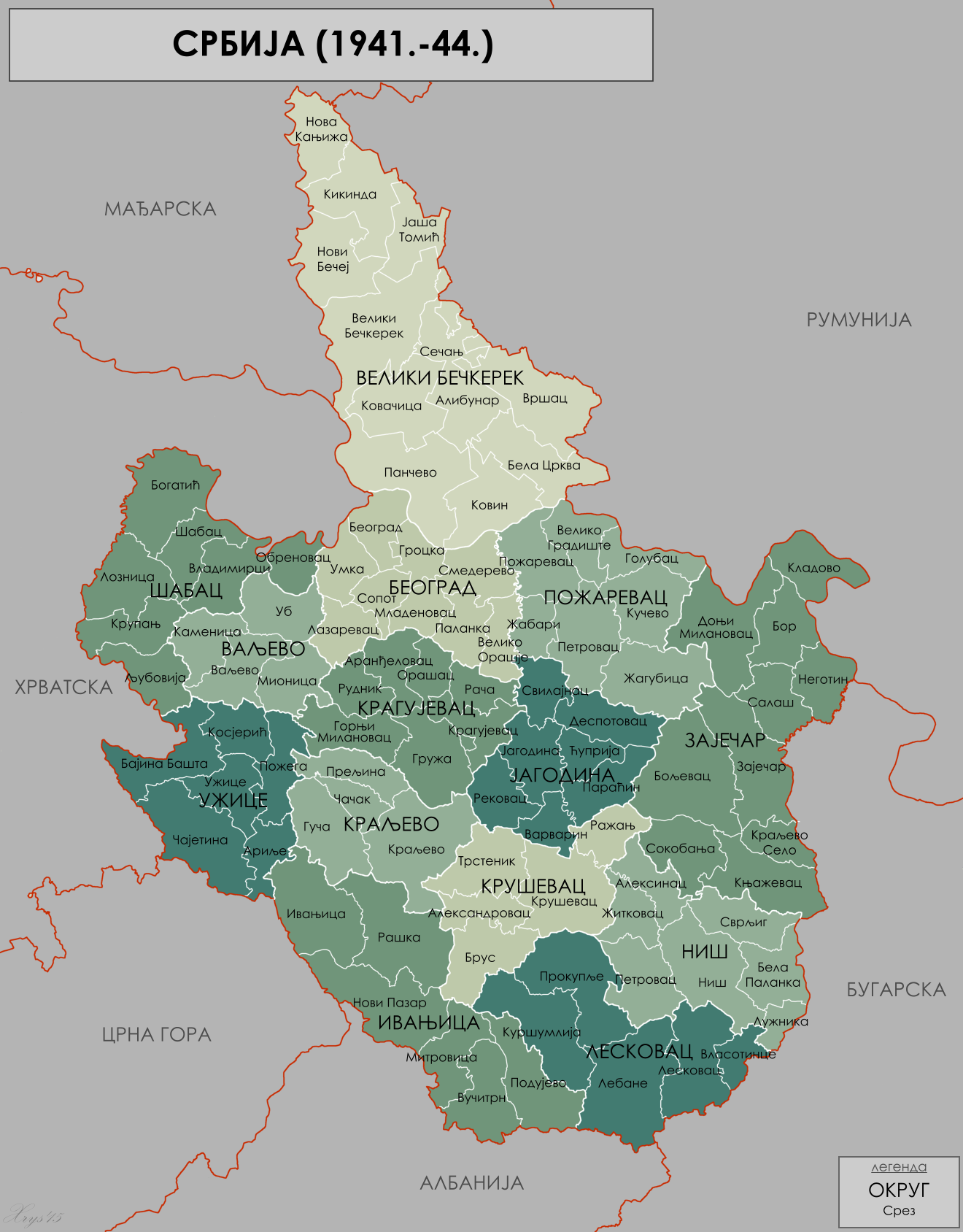 Map showing the Okruzi and Srezovi of Serbia from 1941-44. Labelling in Serbian Cyrillic